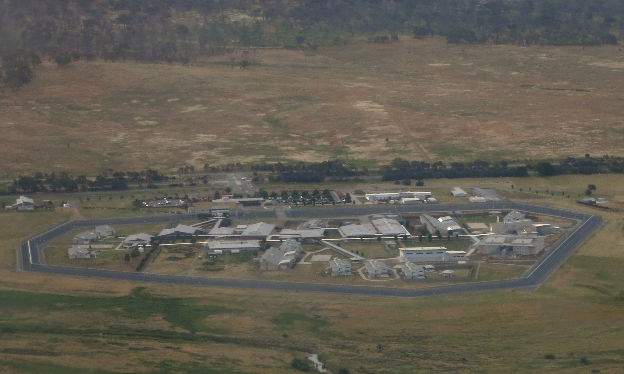 The Alexander Maconochie Centre from an aircraft landing at Canberra Airport